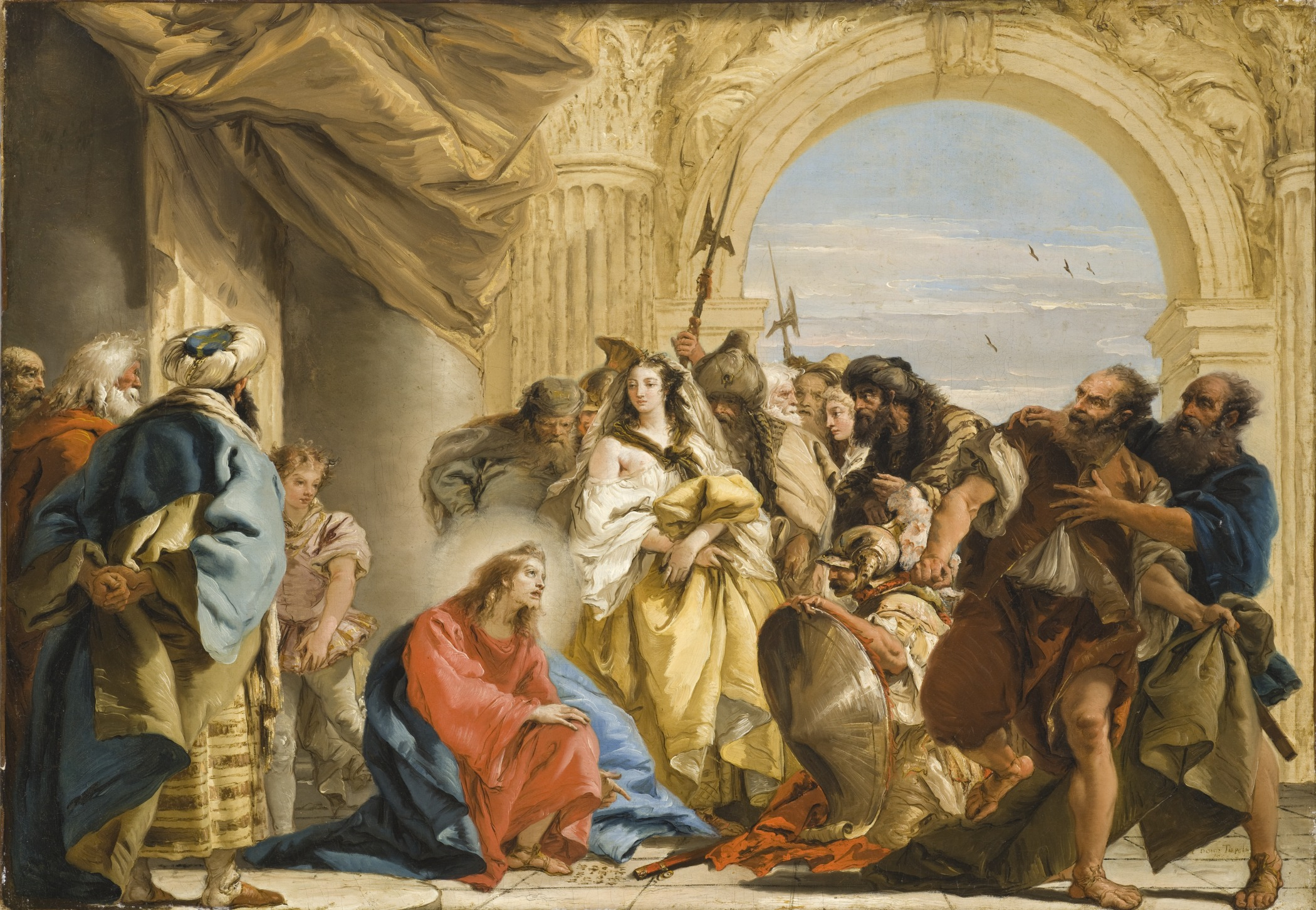 European Painting